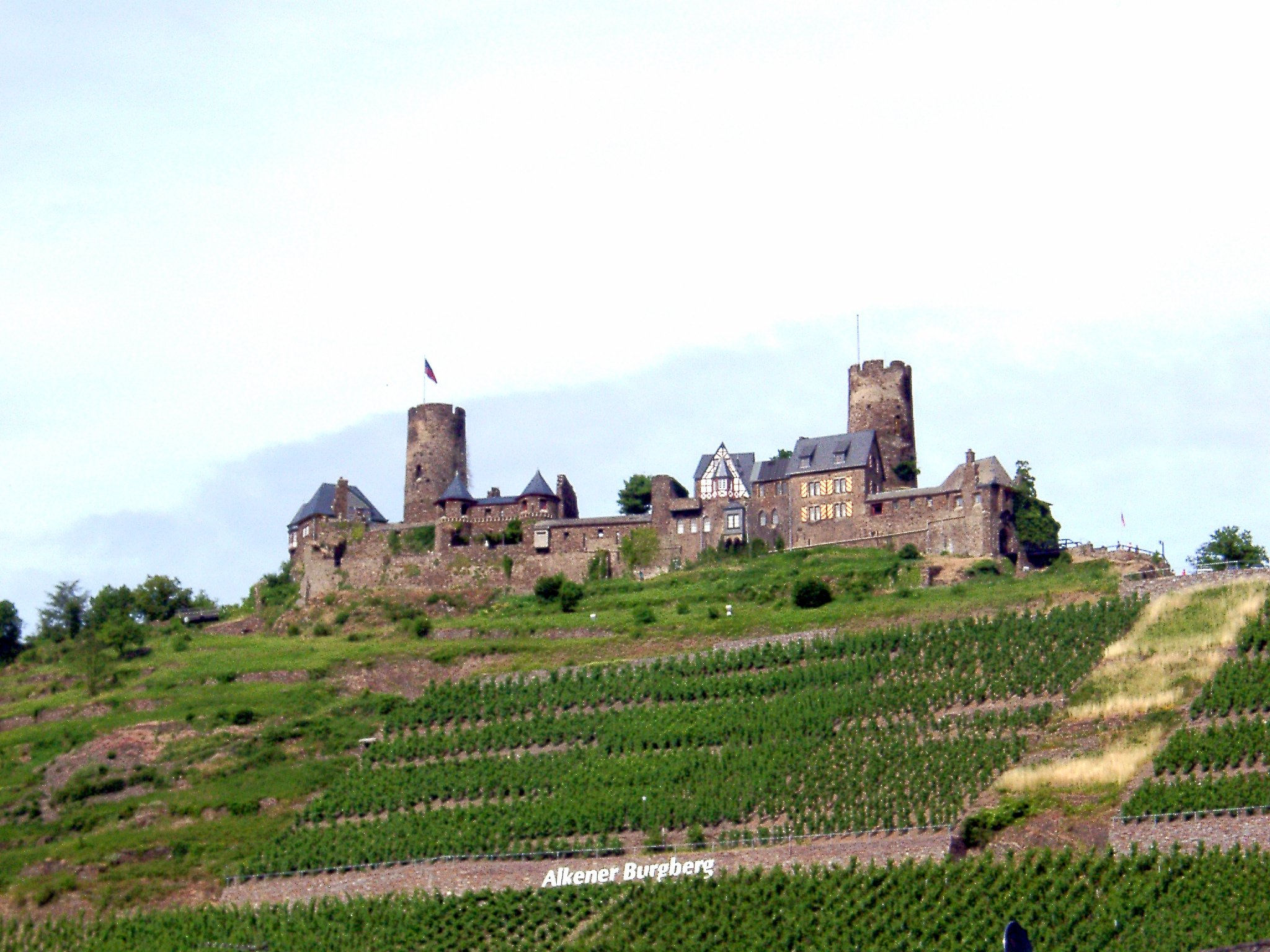 Castle Thurant, Alken, Rhineland-Palatinate